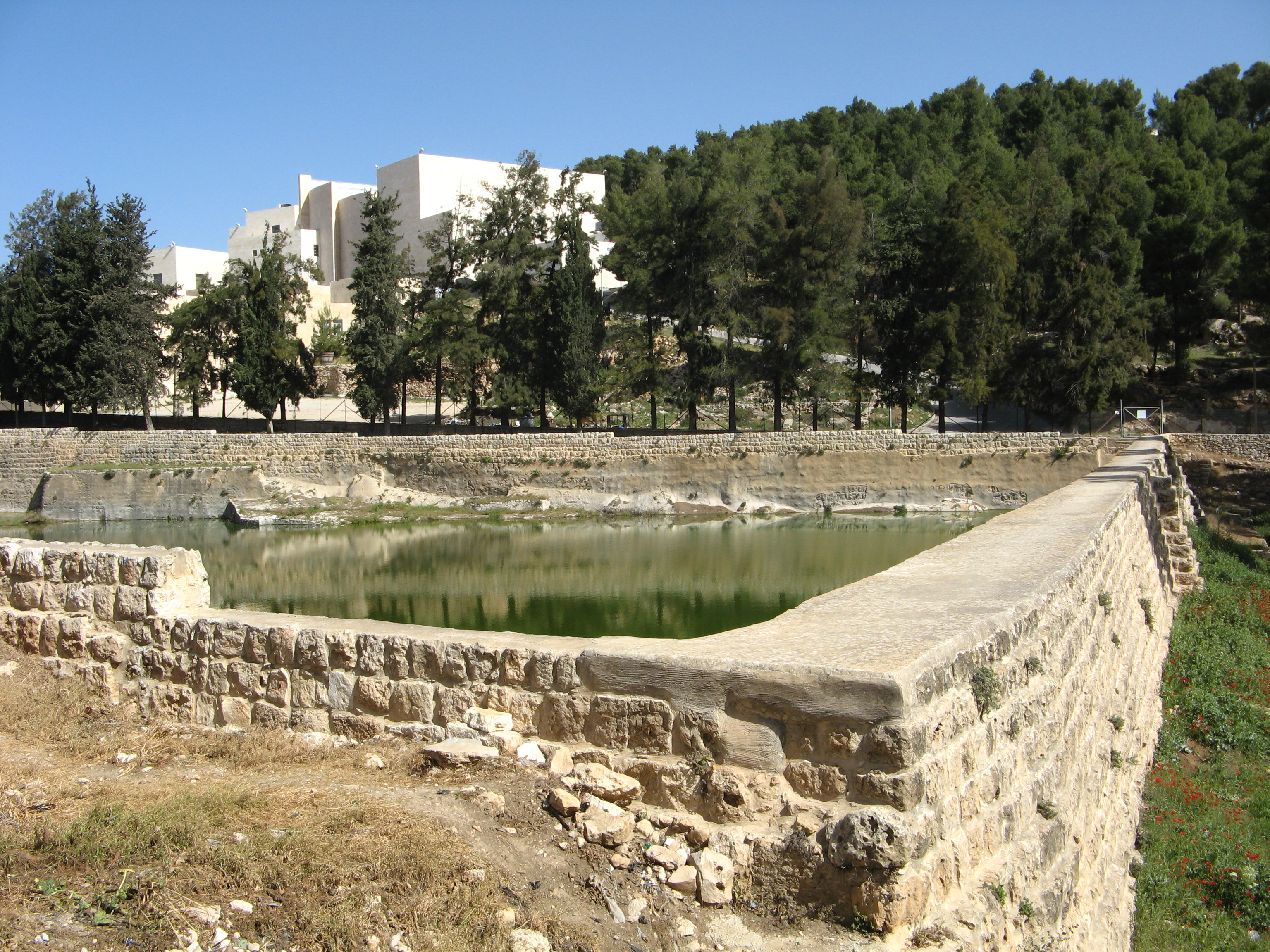 The middle "Solomon's Pool" built by king Herod.